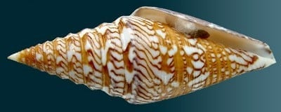 The underside of the seashell of the species Conus excelsus G. B. Sowerby III, 1908[1]; a rare species in the offshore waters from Western Pacific. ABBOTT, R. Tucker; DANCE, S. Peter (1982). Compendium of Seashells. A color Guide to More than 4.200 of the World's Marine Shells. New York: E. P. Dutton. p. 264. 412 pp. ISBN 0-525-93269-0